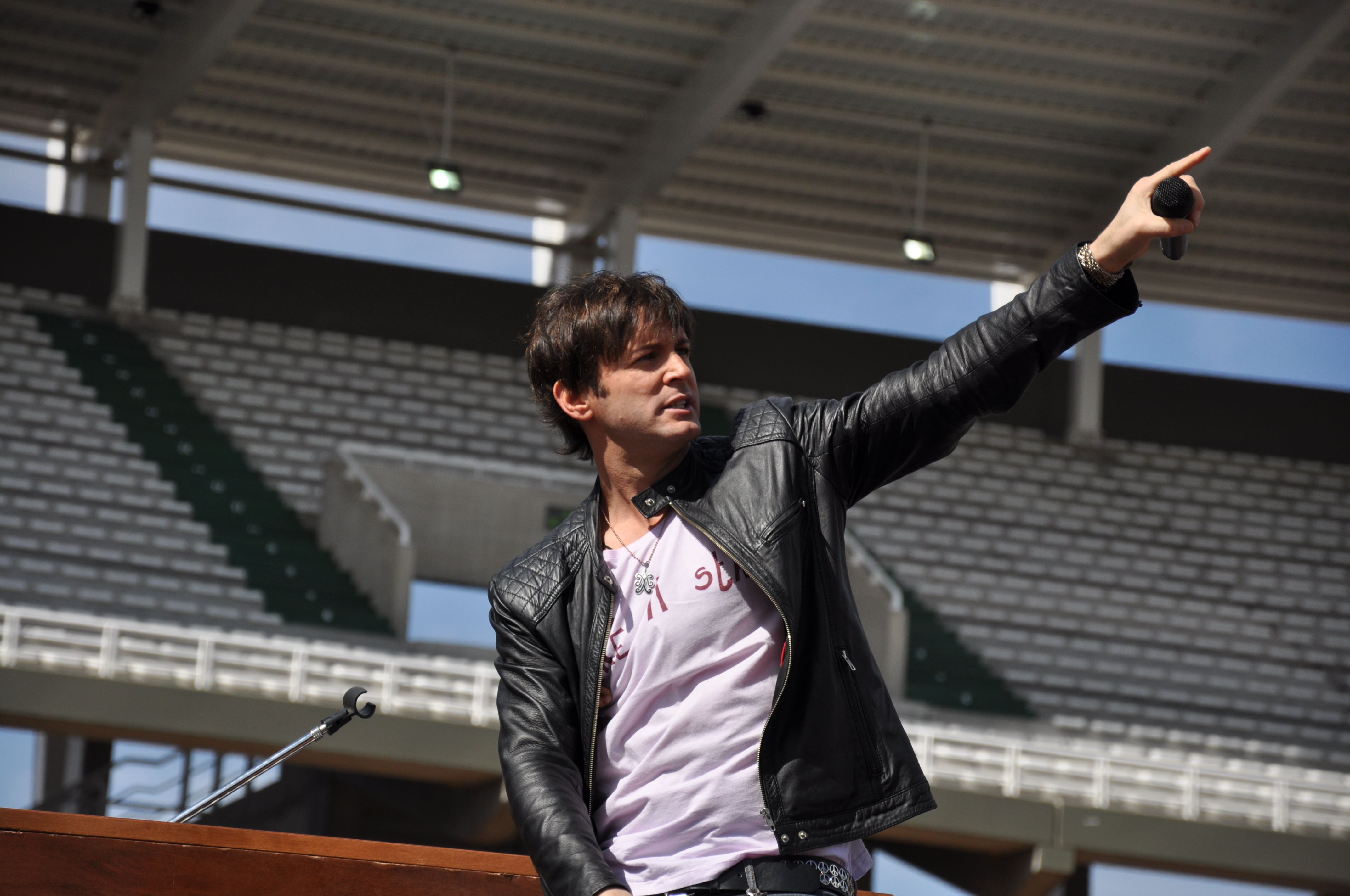 Axel at a concert in Cordoba, Argentina.